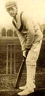 Picture of former Australian cricket captain Herbie Collins, taken in the 1920s. The image is pre-1955 and therefore is in the public domain. This image is of Australian origin and is now in the public domain because its term of copyright has expired. According to the Australian Copyright Council (ACC), ACC Information Sheet G023v16 (Duration of copyright) (Feb 2012). Type of materialCopyright has expired if ... A Photographs or other works published anonymously, under a pseudonym or the creator is unknown:taken or published prior to 1 January 1955 B Photographs (except A):taken prior to 1 January 1955 C Artistic works (except A & B):the creator died before 1 January 1955 D Published editions1 (except A & B):first published more than 25 years ago E Commonwealth or State government owned2 photographs and engravings:taken or published more than 50 years ago and prior to 1 May 1969 1 means the typographical arrangement and layout of a published work. eg. newsprint. 2owned means where a government is the copyright owner as well as would have owned copyright but reached some other agreement with the creator. When using this template, please provide information of where the image was first published and who created it.